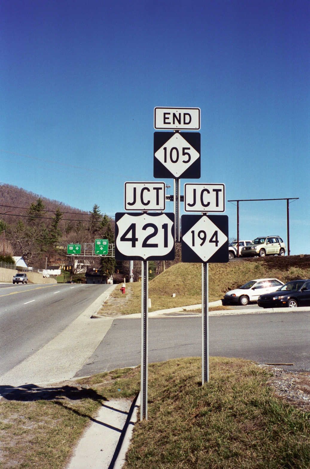 Picture I took back in 2001 of the North Carolina Highway 105 End sign in Boone, North Carolina. Also includes Junction U.S. Route 421 and North Carolina Highway 194.